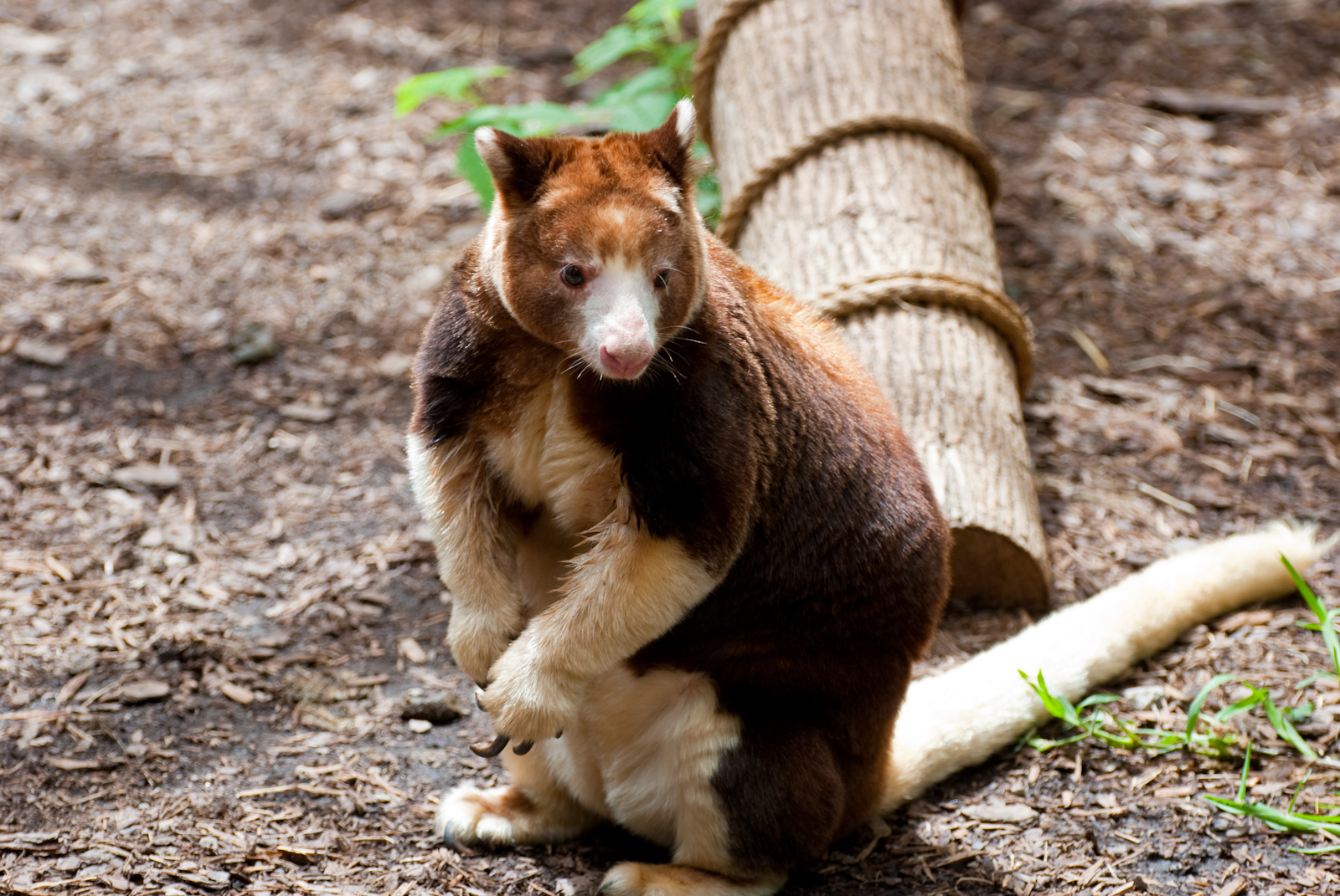 A Matschie's Tree-kangaroo at Toronto Zoo, Ontario, Canada.